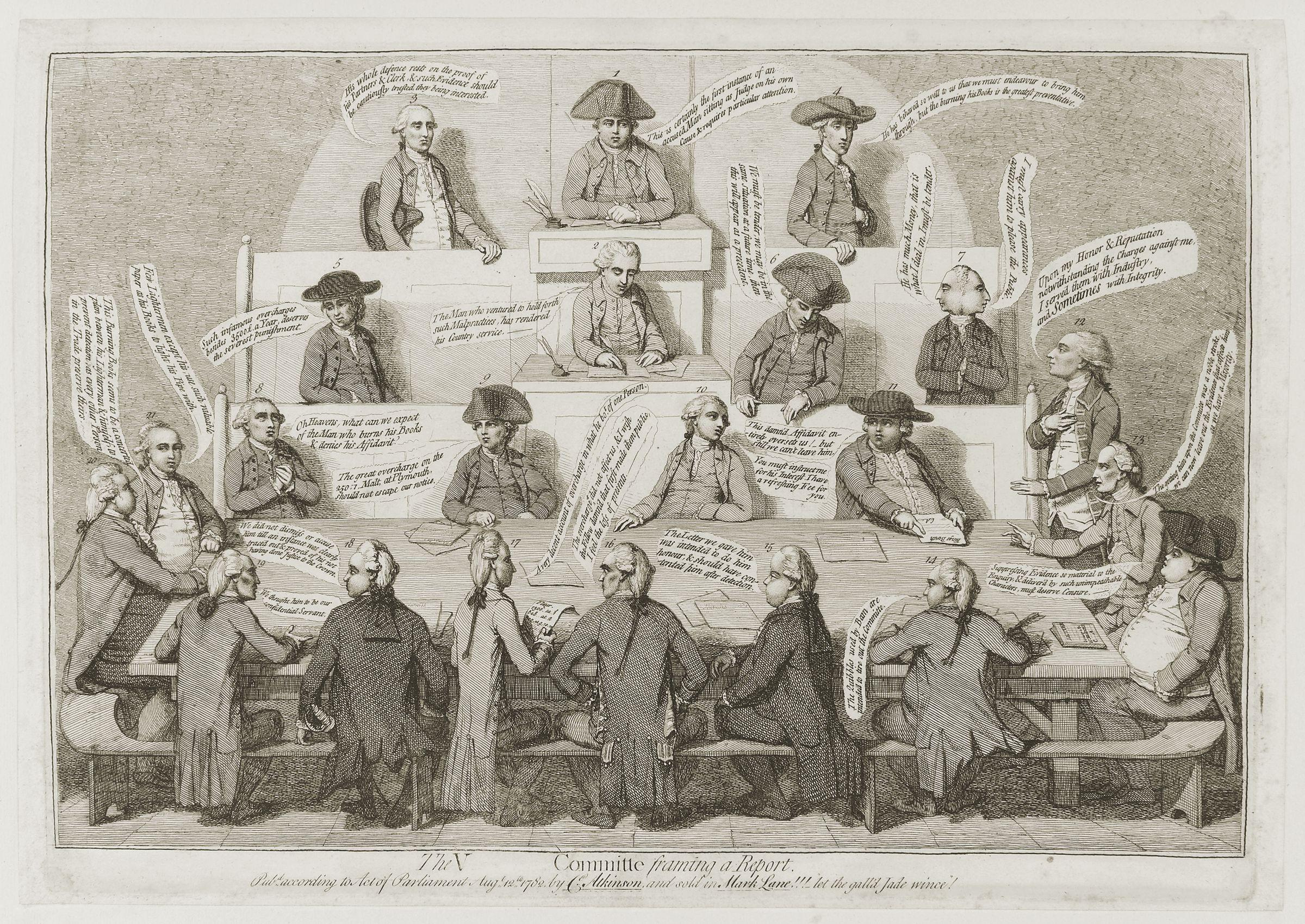 The v(ictualling) committee framing a report, by James Gillray (died 1815), published 1782. inc Bamber Gascoyne ... Etching by James Gillray published 12 August 1782 All images in this batch have been confirmed as author died before 1939 according to the official death date listed by the NPG.